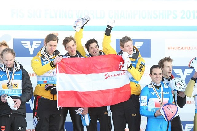 Team Austria during team competition of FIS Ski-Flying World Championships 2012